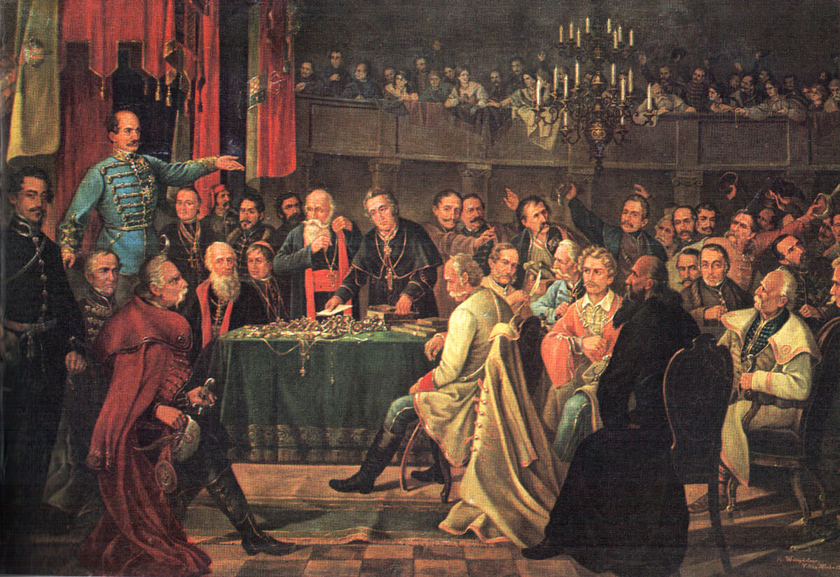 Meeting of the Croatian Parliament, 1848.